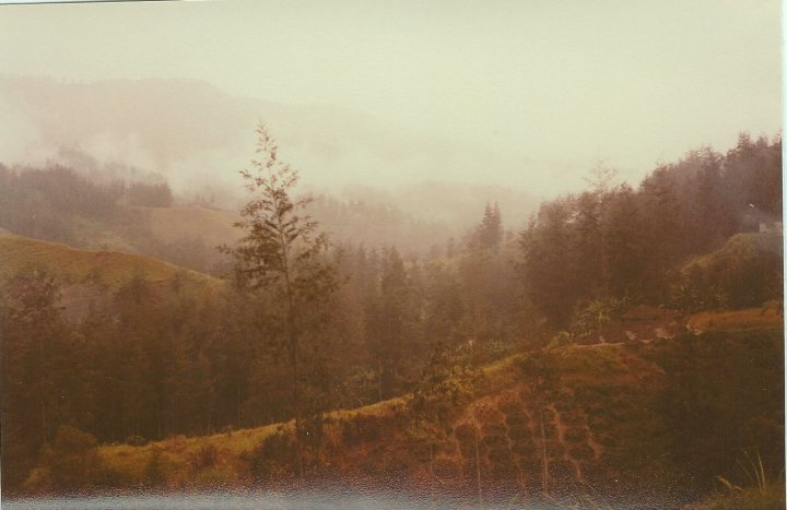 Kaukau (aka kumara, aka sweet potato) gardens, Ambum Valley, Enga Province, PNG